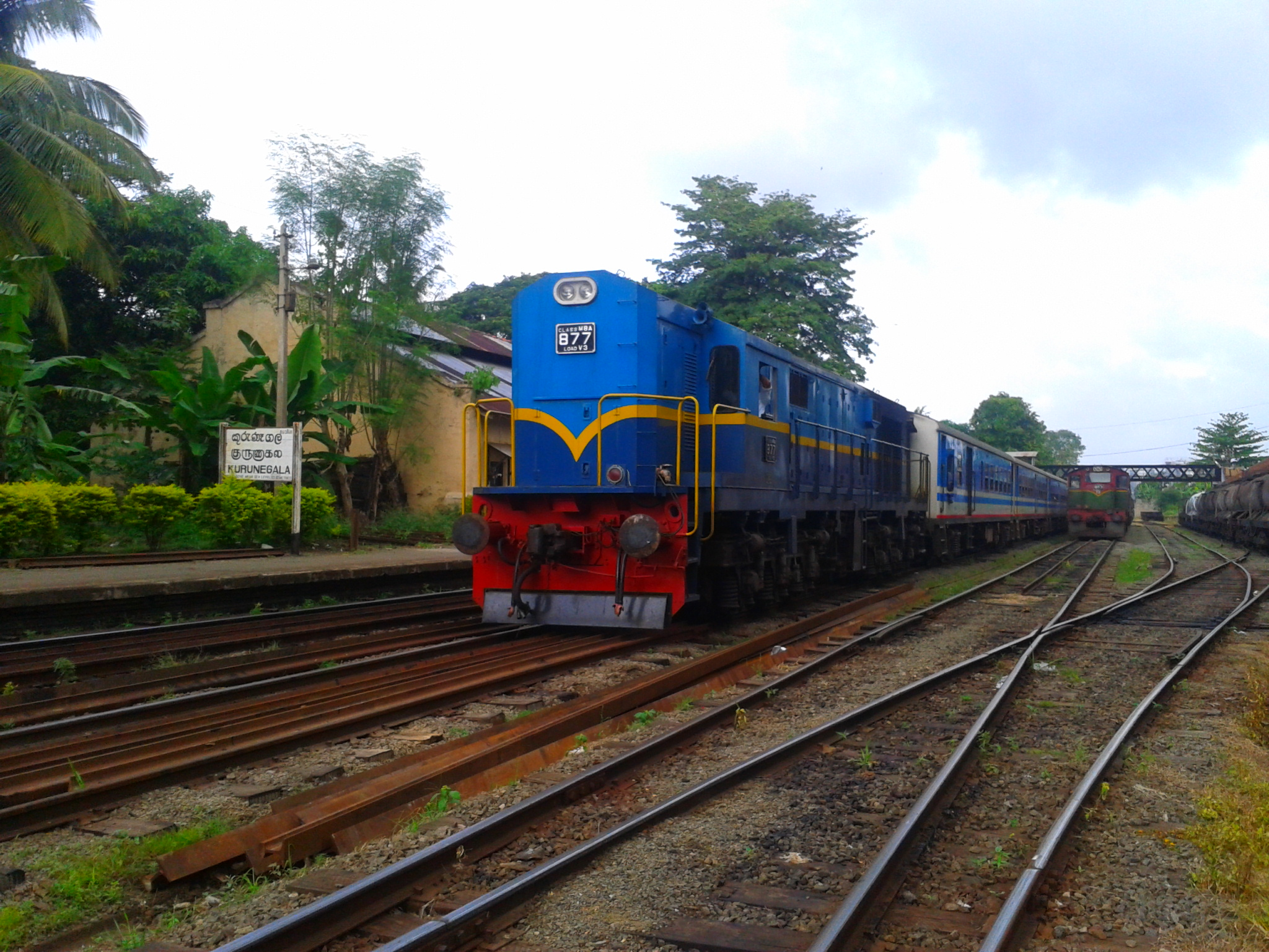 Class M8A diesel locomotive operated by Sri Lanka Railways manufactured by diesel locomotive works at Kurunegala railway station